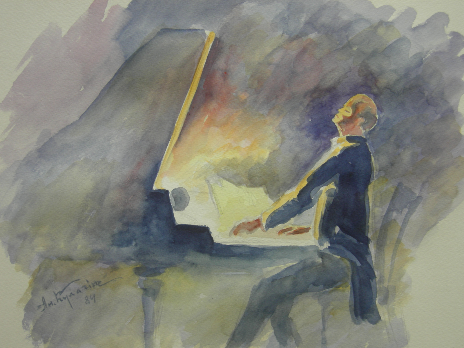 Painting "At a concert of Svyatoslav Richter" made by Andrey Kulagin